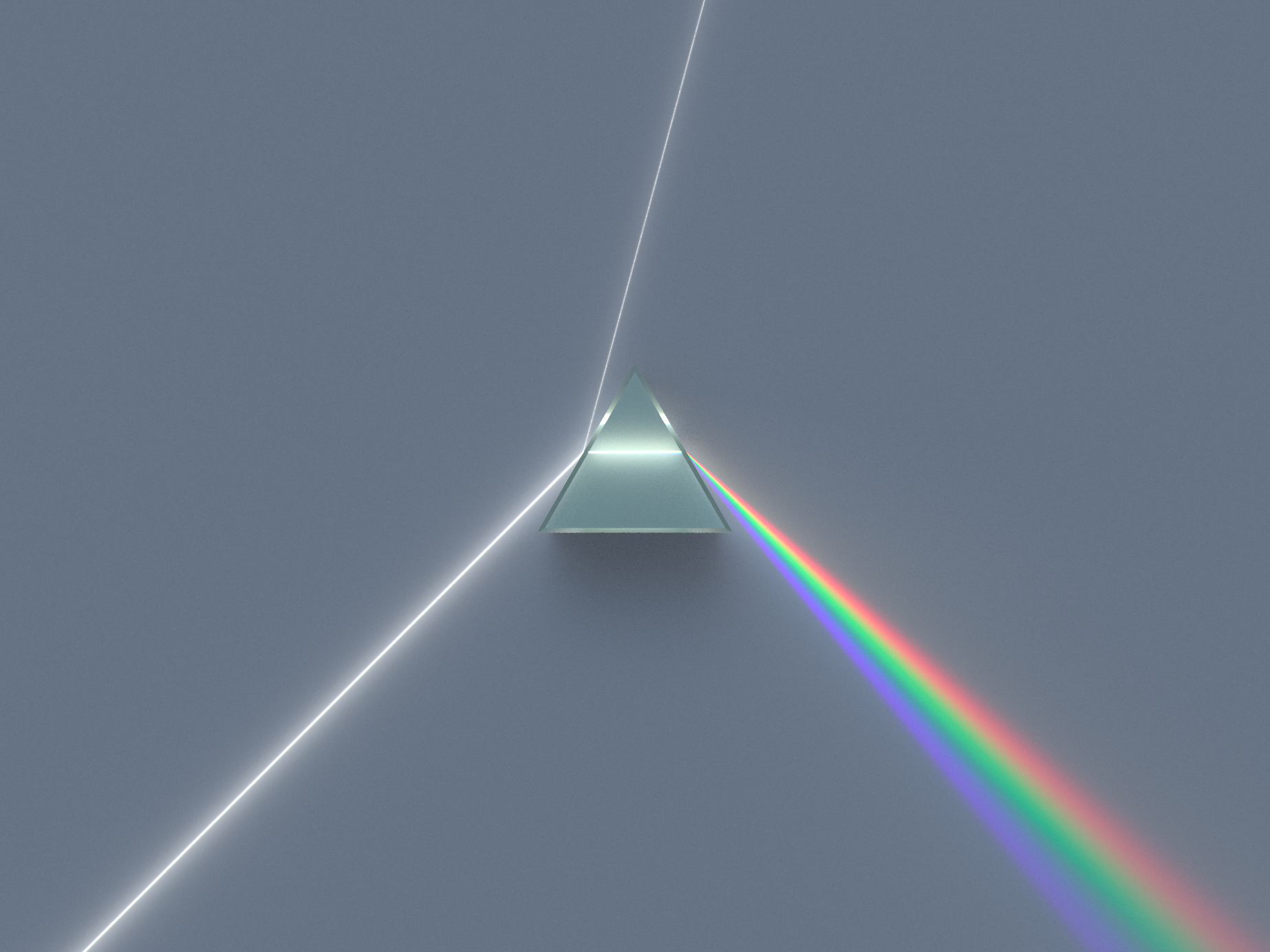 A dispersive equillateral prism refracting and reflecting an incoming beam of uniform white light rendered into the sRGB IEC61966-2.1 color space